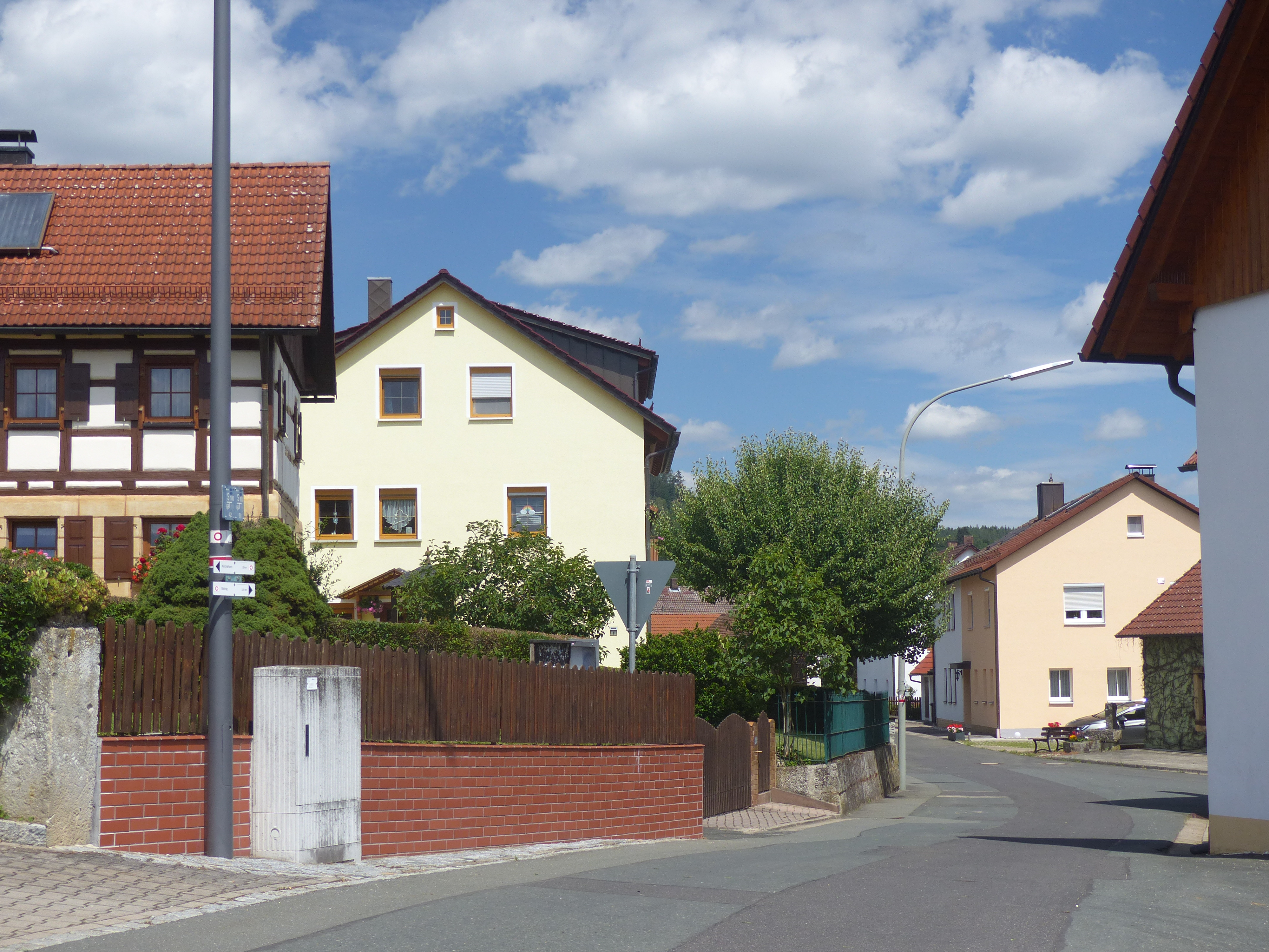 The village Weiher, a district of the municipality of Ahorntal.